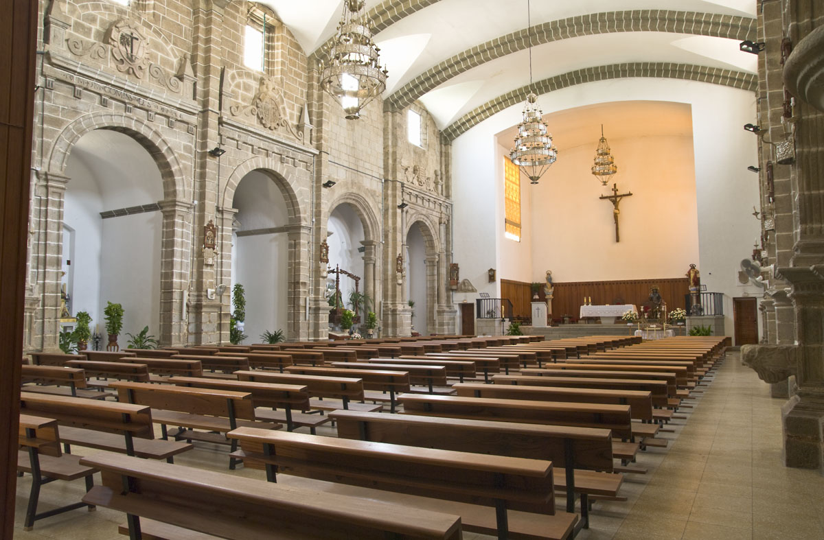 Interior de la Iglesia de Belálcazar